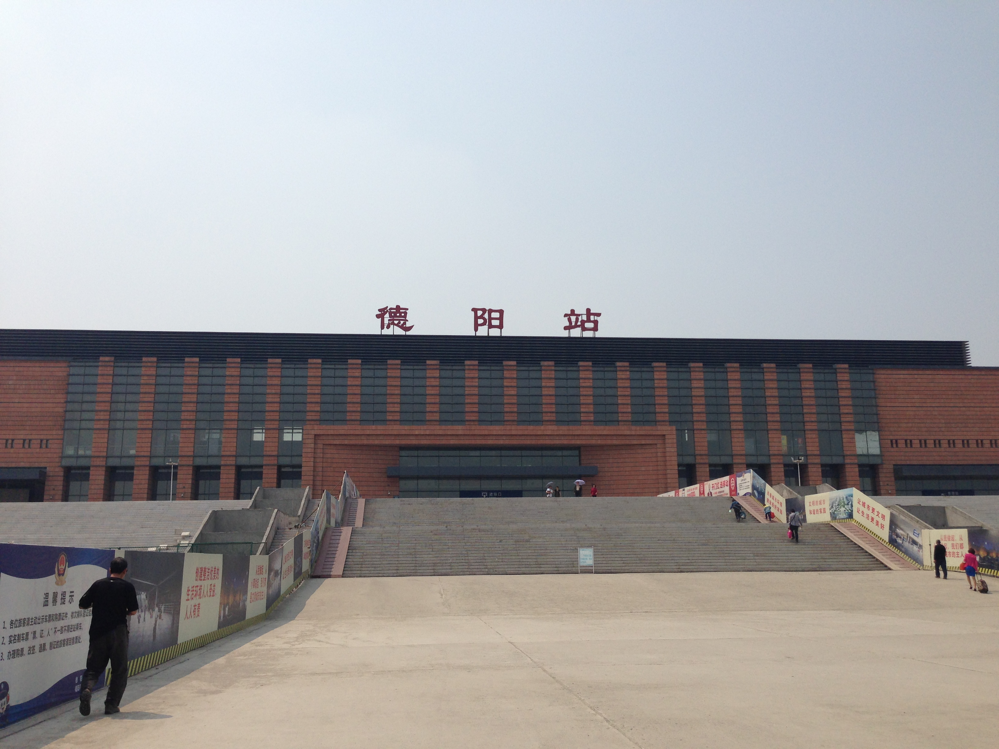 This is CR Deyang Station